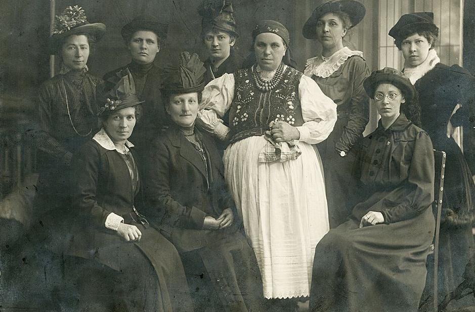 Delegation of the Women's League of Galicia and Silesia to the Kola Polski in Vienna on April 25, 1917